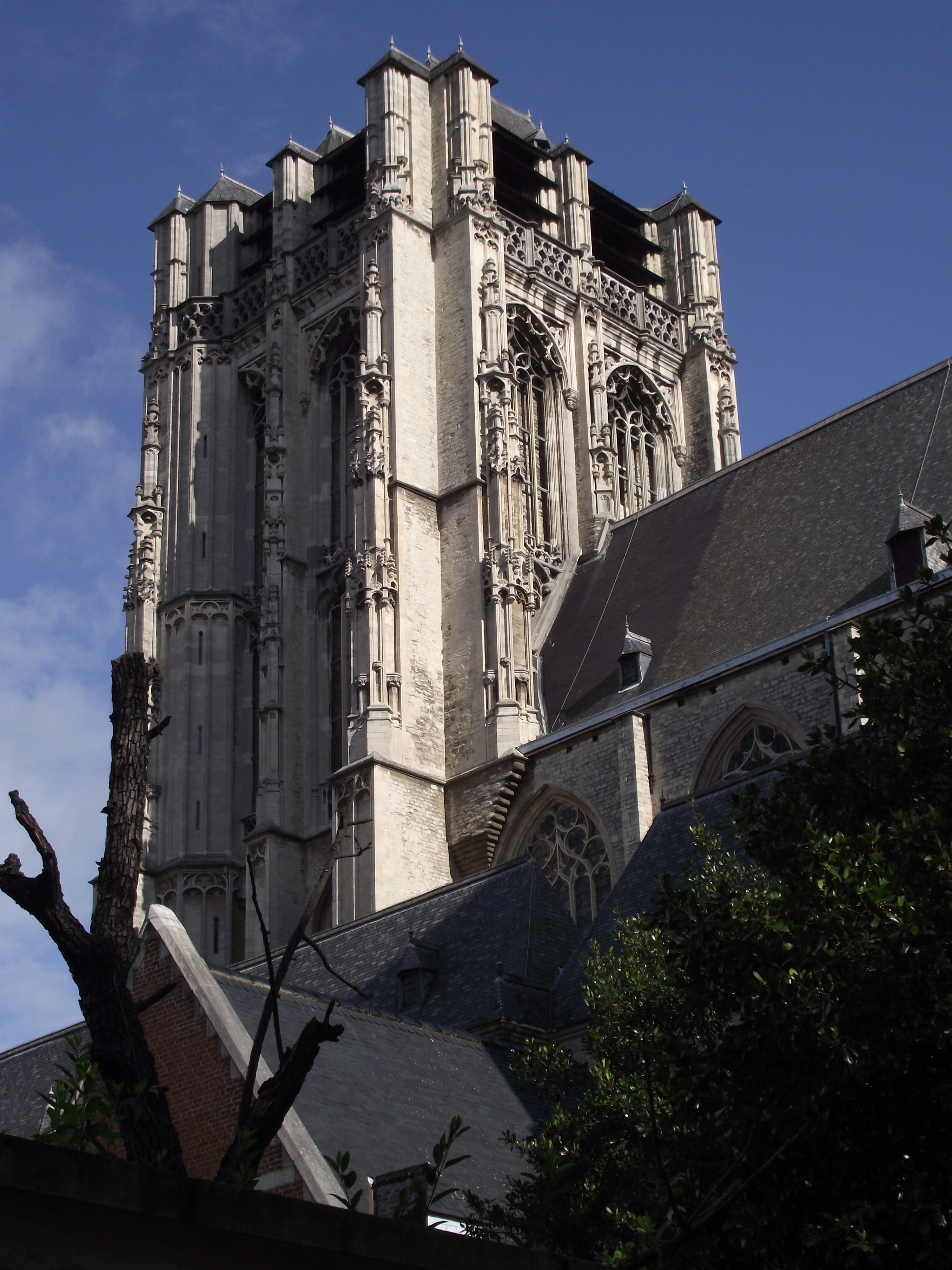 Antwerp, Saint James's Church, XV-XVI Century